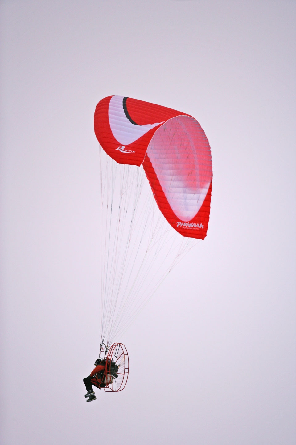 Paragliding to get a better view of ice conditions. Arctic Ocean, north of western Russia.